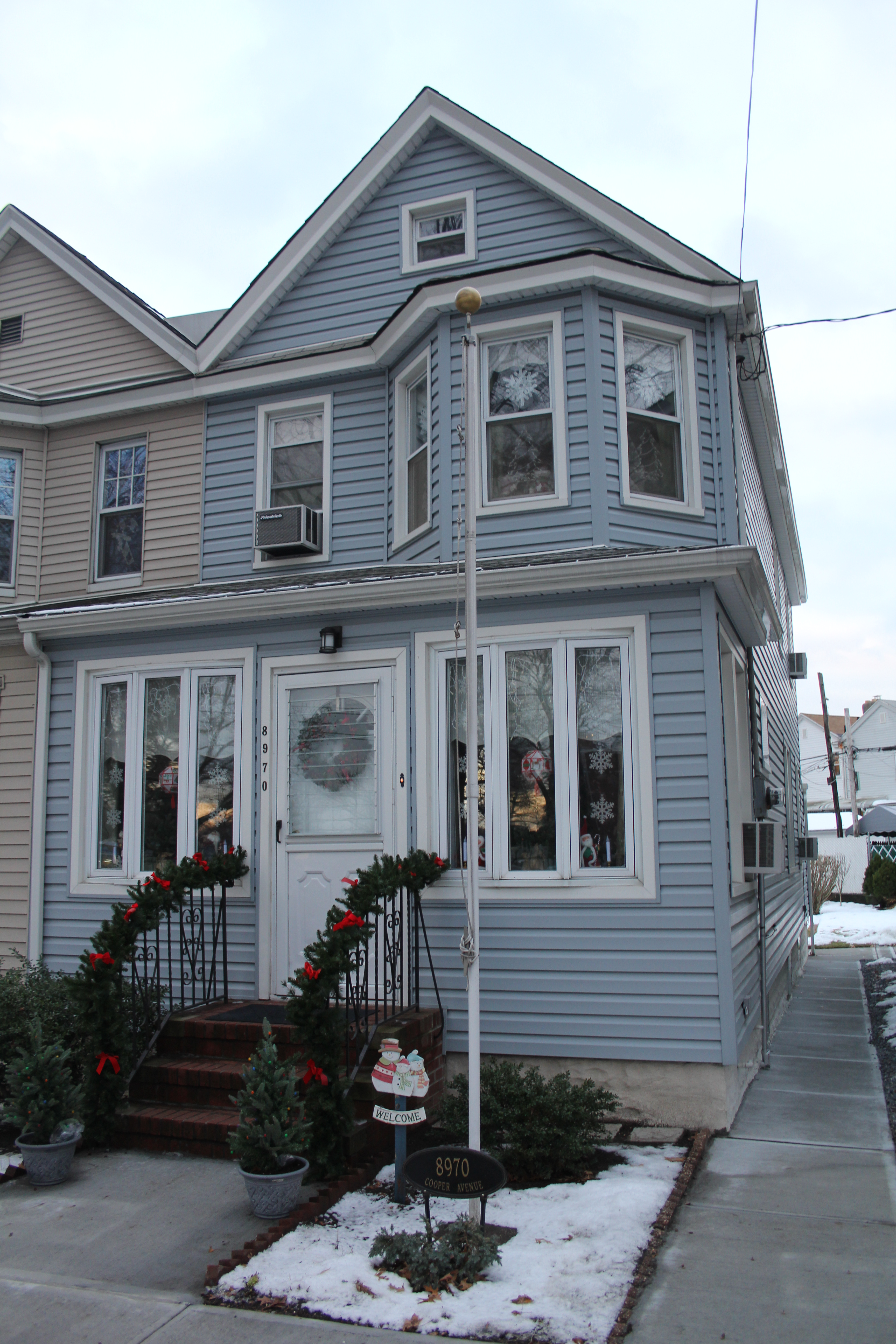 This house was featured in the opening sequence of the TV show "All in the Family", whose main character was Archie Bunker. In the show it was called 704 Hauser Street, a fictitious address. It is actually 89-70 Cooper Avenue in the Glendale section of the borough of Queens in New York City. This is how it looked in late 2013.